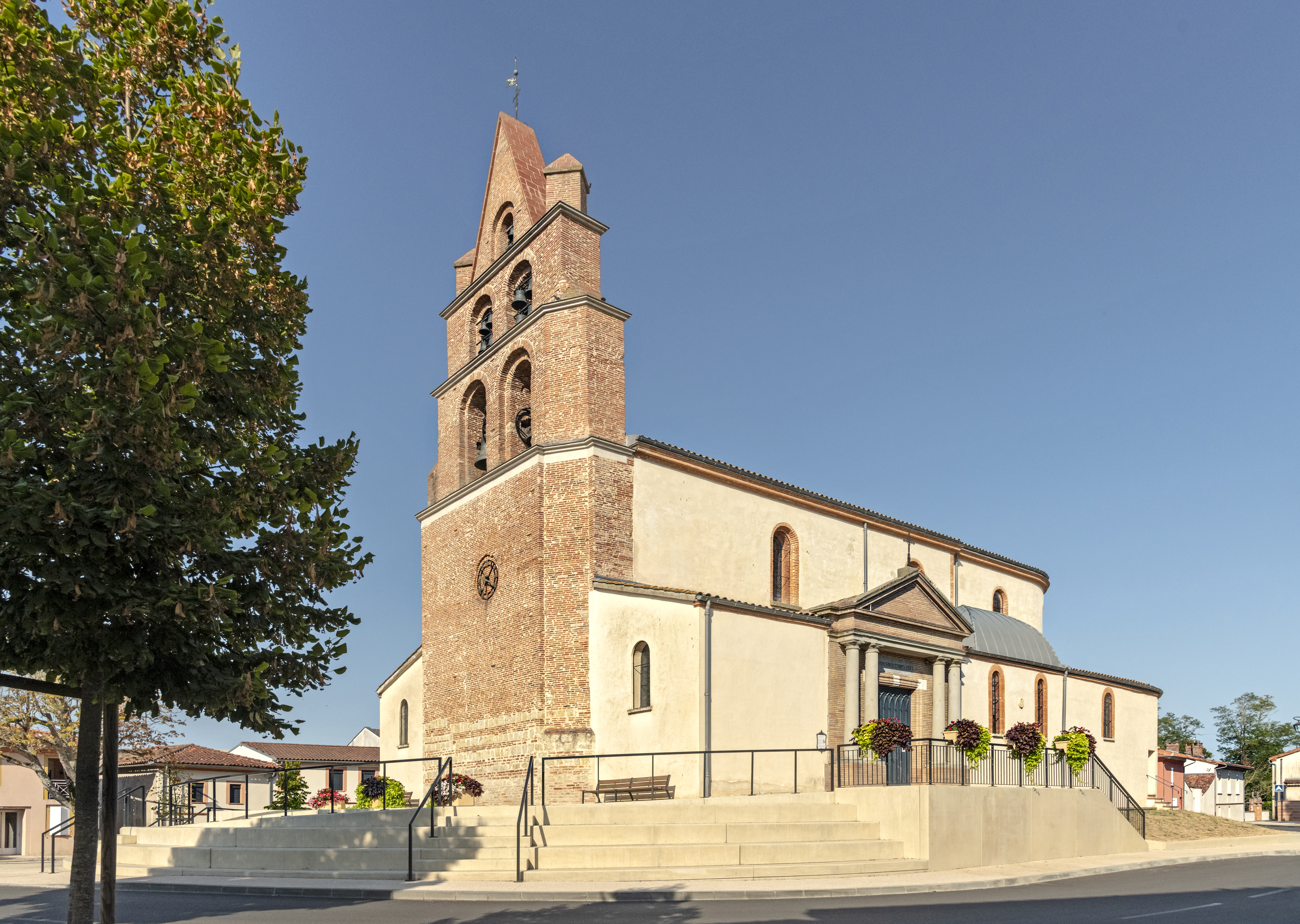 Paulhac, Haute-Garonne France - Church of Our Lady